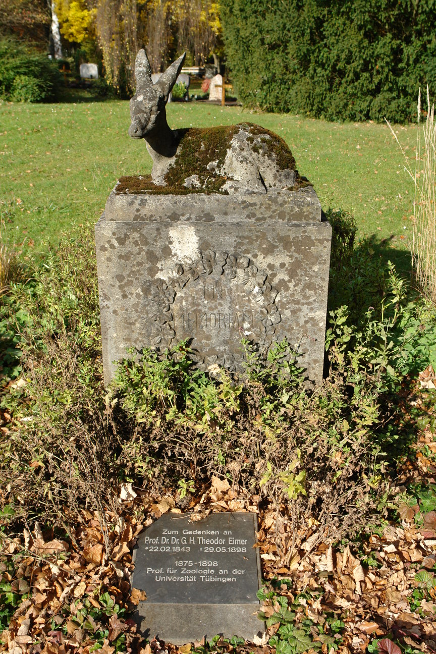 Memorial for Theodor Eimer on the Bergfriedhof cemetry in Tübingen, Germany